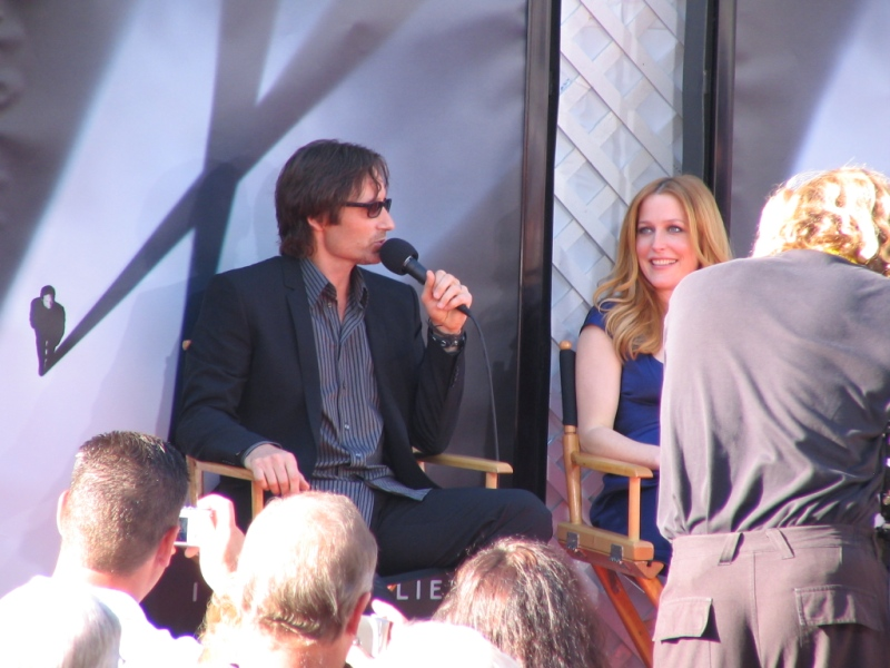 David Duchovny and Gillian Anderson at the premiere of "The X-Files: I Wanto To Believe"